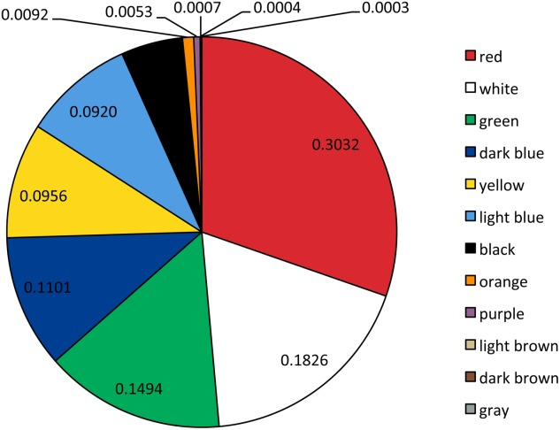 This graph shows the proportion of the surface that is being used by the main colours of national flags.